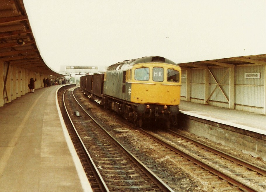 In the early 1980s the Southern Region started receiving ballast from ARC's Tytherington Quarry, one train a day worked by a single class 33 with about 10 seacow hoppers arrived from Woking on weekday afternoons, returning loaded later each evening, 22/5/80